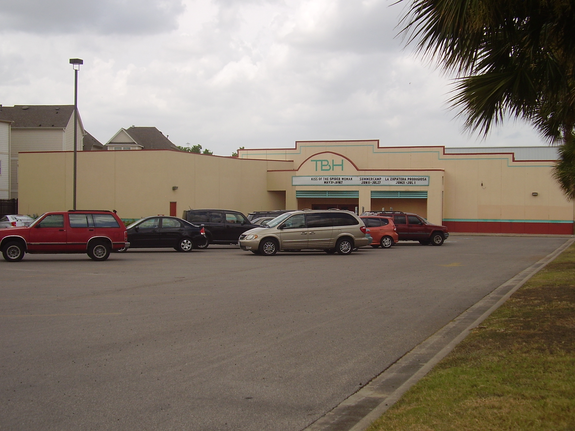 Talento Bilingüe de Houston (TBH, "Bilingual Talent of Houston"), originally Teatro Bilingüe de Houston ("Bilingual Theater of Houston")